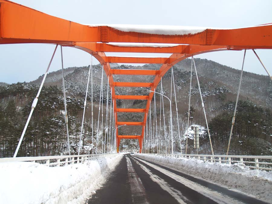 Route 283 crossing the Tase Ohashi bridge in Hanamaki City